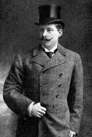 A picture of Sir Cosmo Duff-Gordon (1862-1931), survivor of the Titanic disaster (1912).